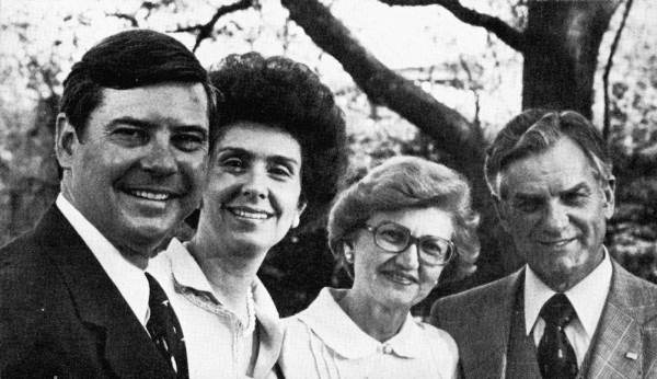 Campaign postcard featuring Governor Bob Graham, Lieutenant Governor Wayne Mixson, First Lady Adele Graham, and Second Lady Margie Mixson